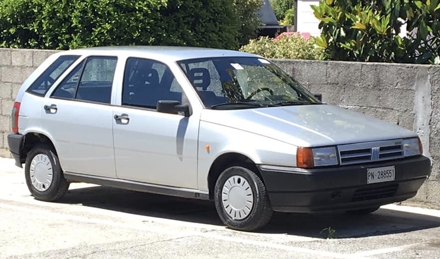 Fiat Tipo 1,372 cc 1990